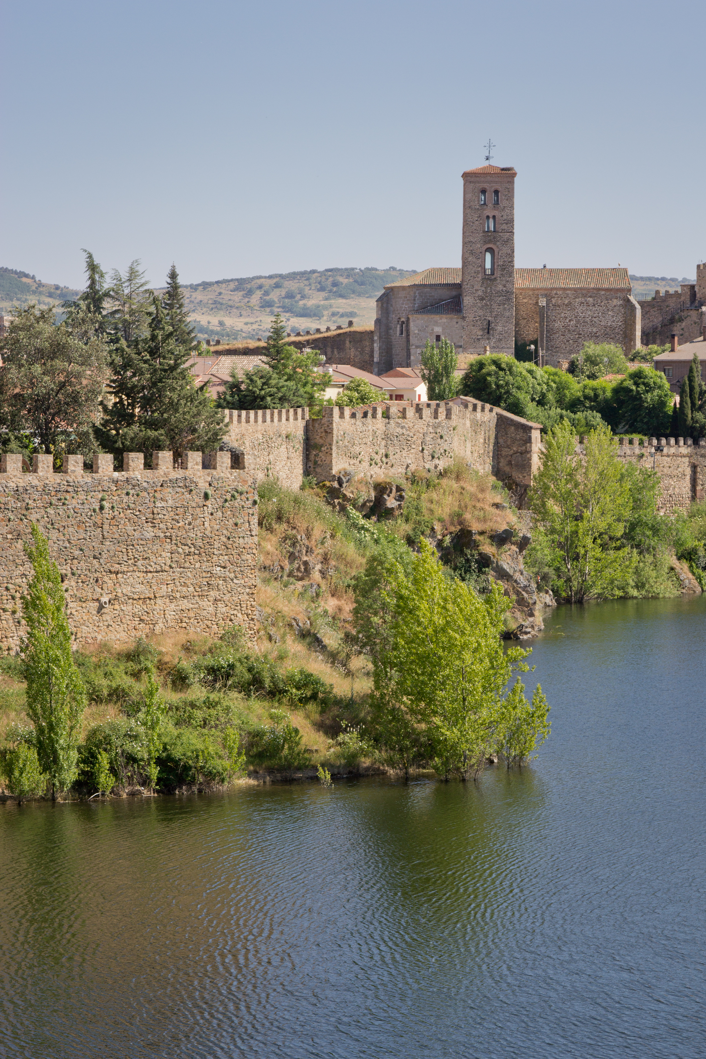 Buitrago del Lozoya, Community of Madrid, Spain.